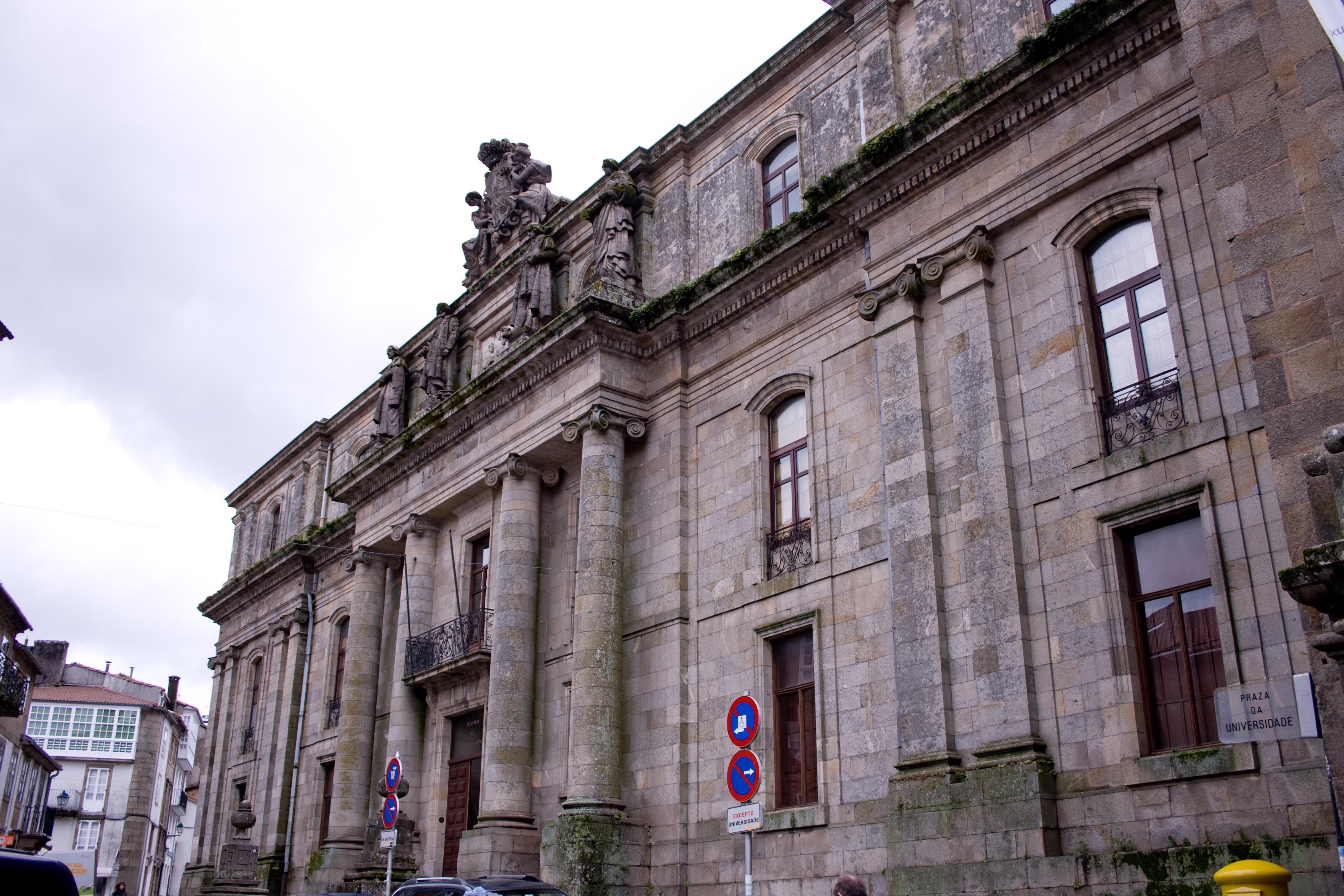 View of the facade of Santiago de Compostela Faculty of History.